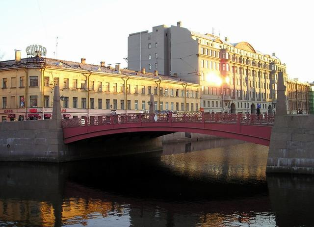 Krasny ('red') Bridge. River Moyka.